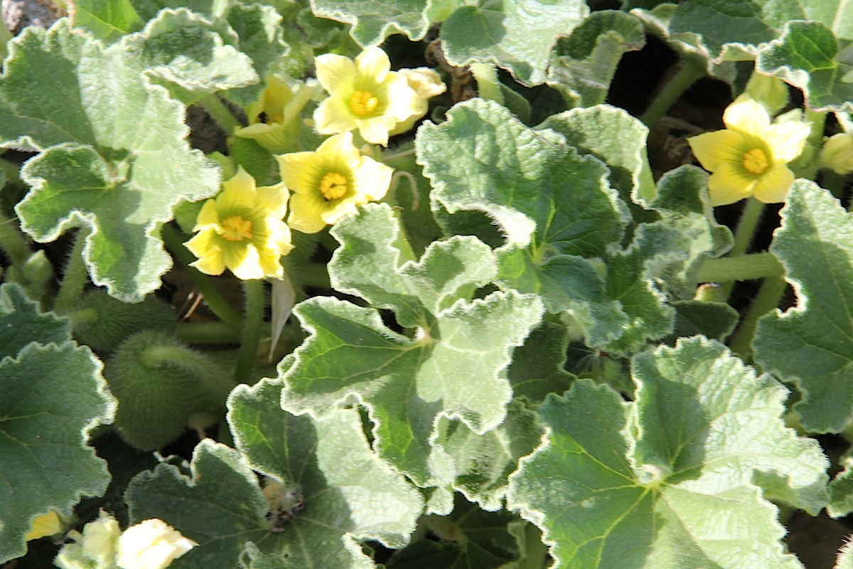 Squirting Cumcumber, Ecballium elaterium